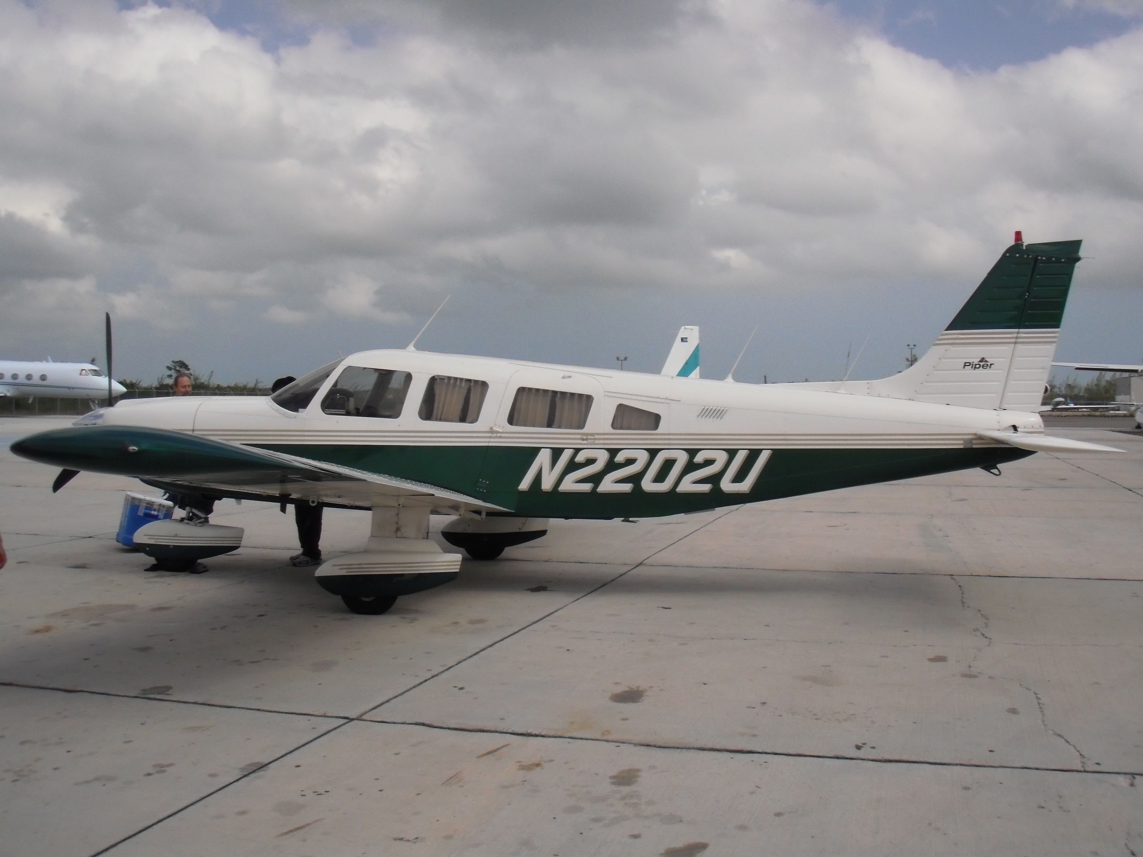 Private Plane available to and from Staniel Cay. Owned by a Staniel Cay native. 2009